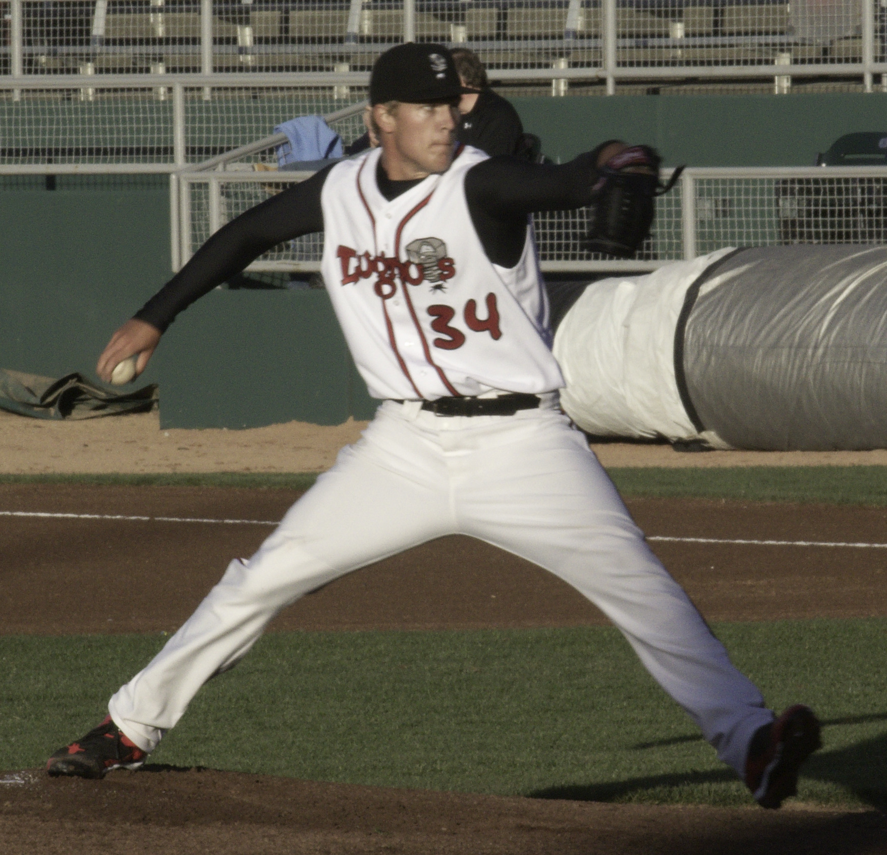 Great Lakes @ Lansing 04062012